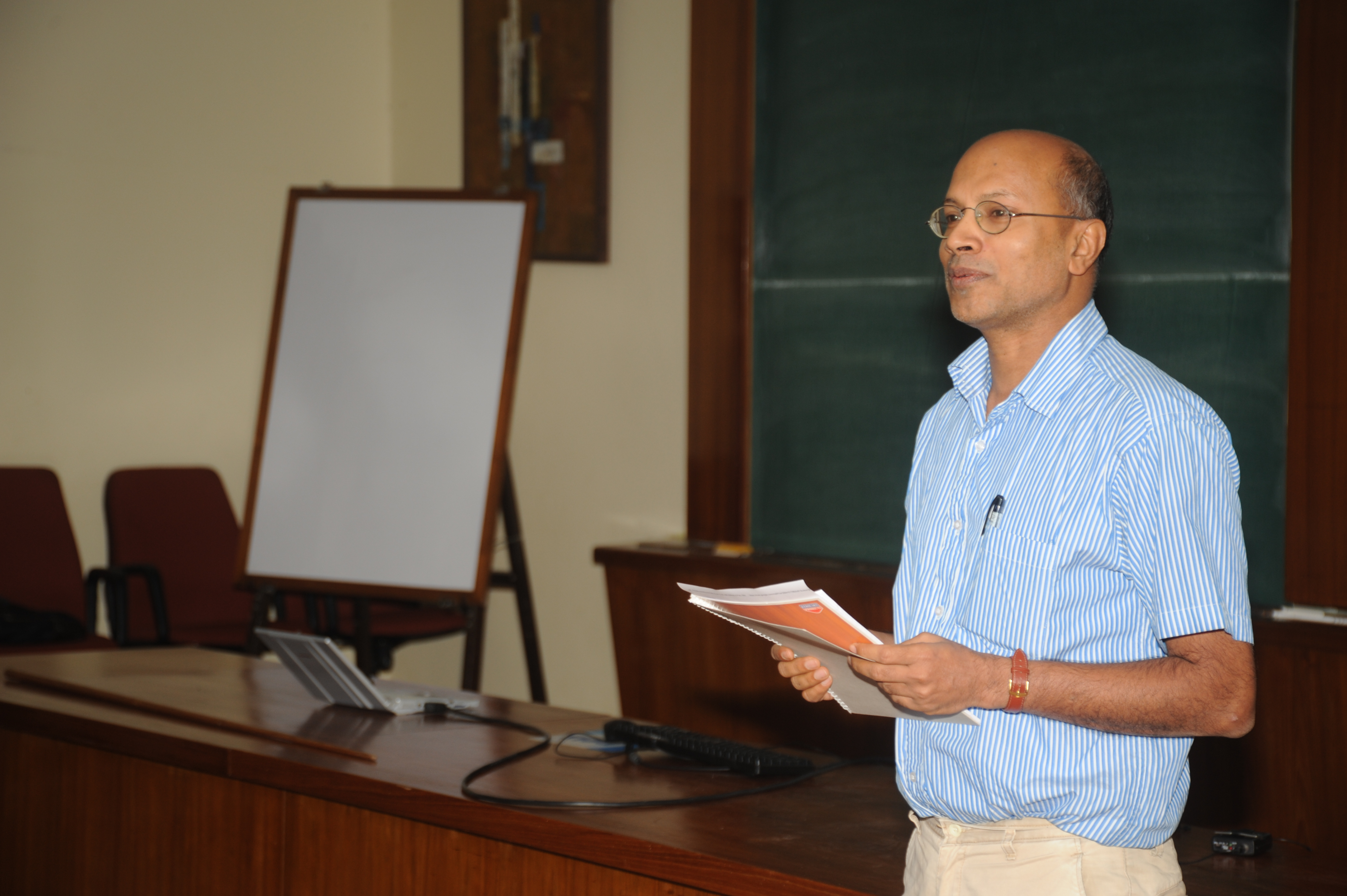 Prof. Dipendra Prasad lecturing at TIFR